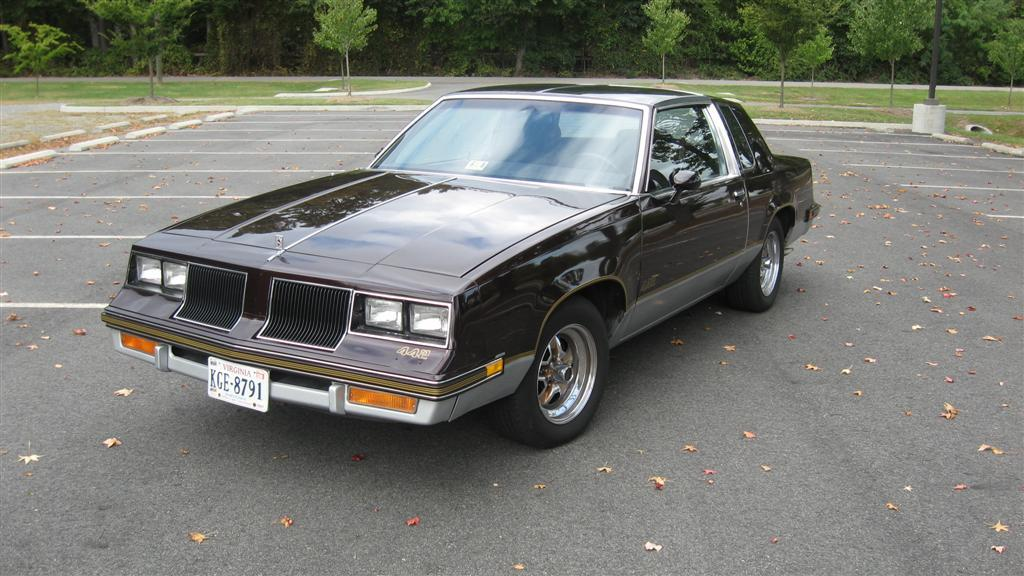 1986 Oldsmobile 442